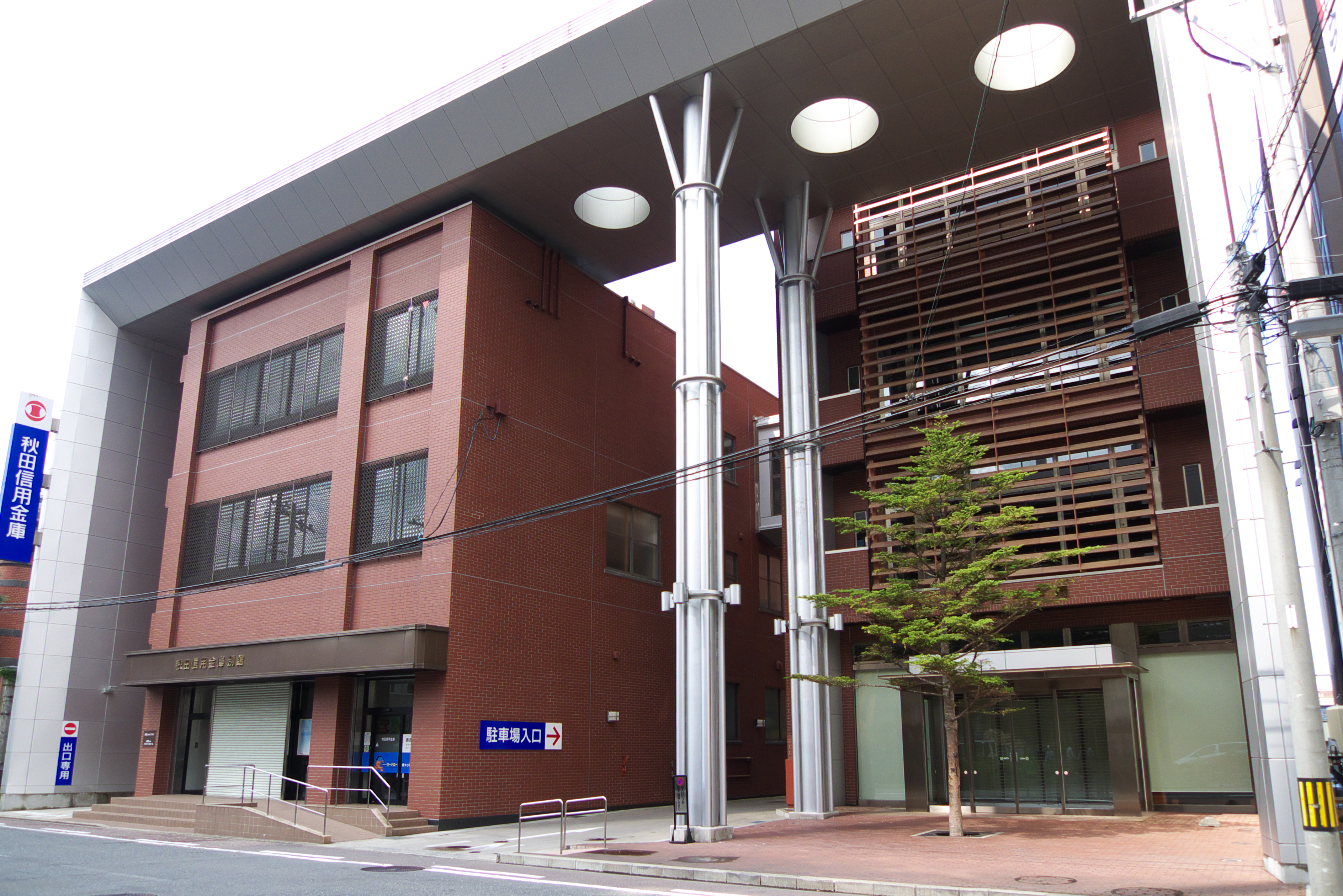 The Akita Shinkin Bank Headquarters in Akita City, Akita Prefecture, Japan